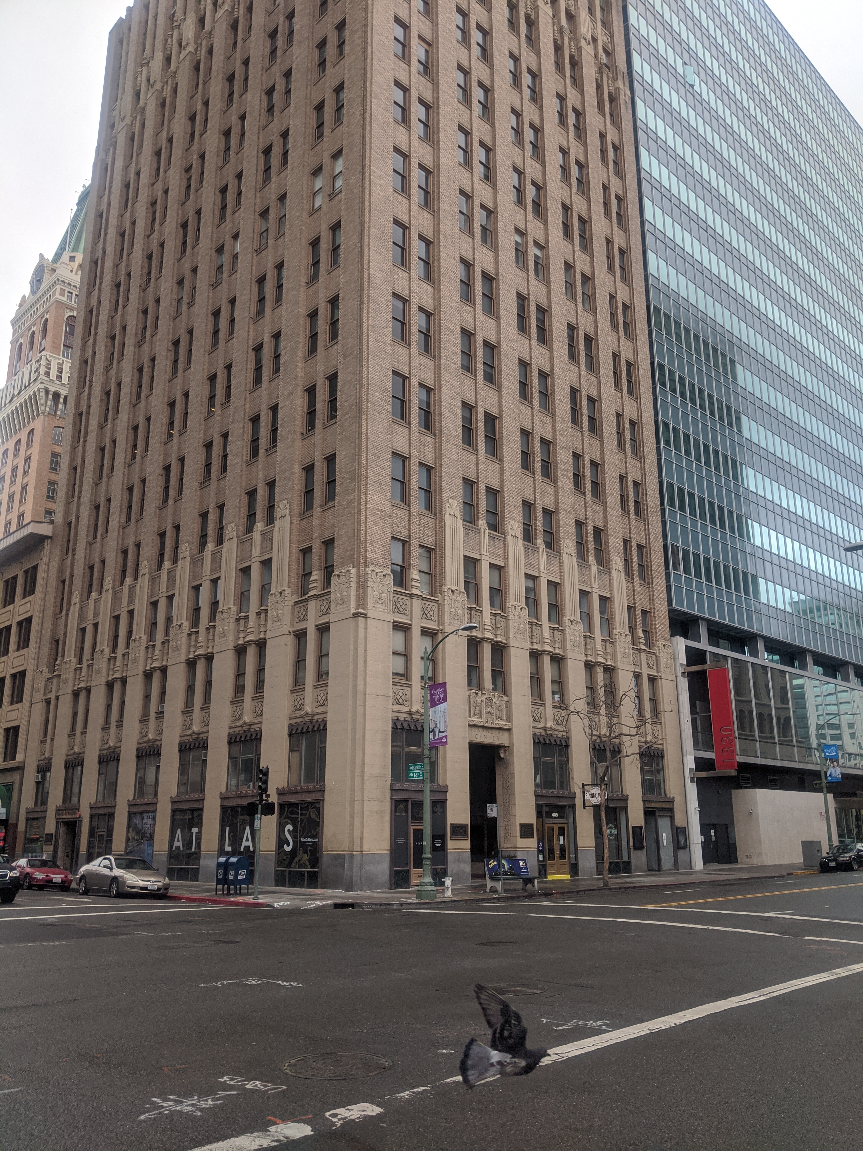 downtown oakland